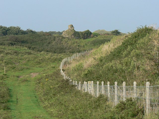 Path to Kenfig Castle Margam One of the well defined tracks on the Burrows. There are many false trails created by cattle that graze in the area.